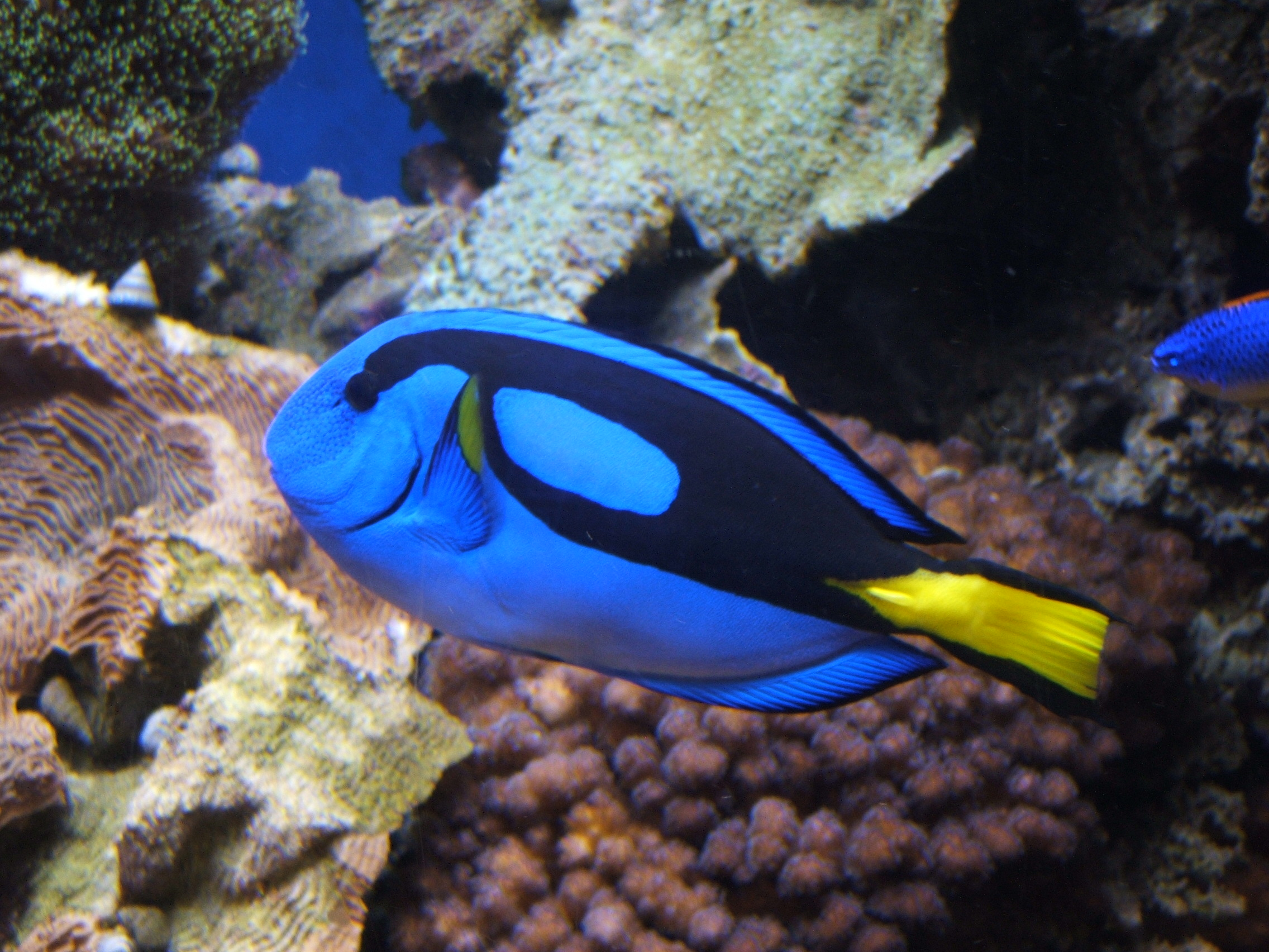 Monterey Bay Aquarium